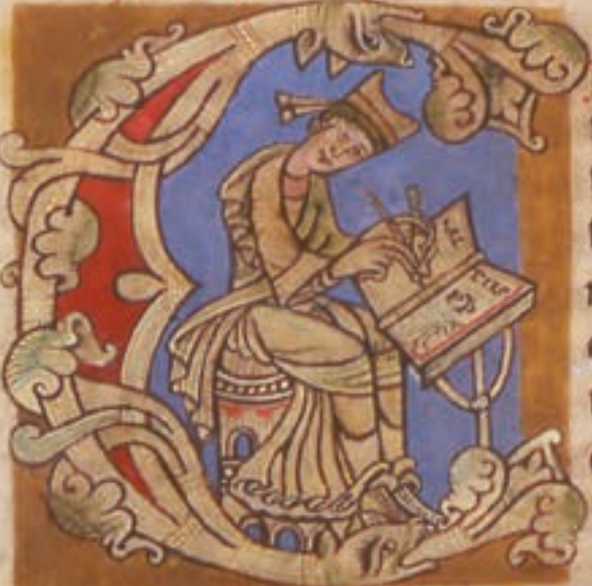 Miniature representing the Pope Calisto II in the prologue of the Codex Calixtinus